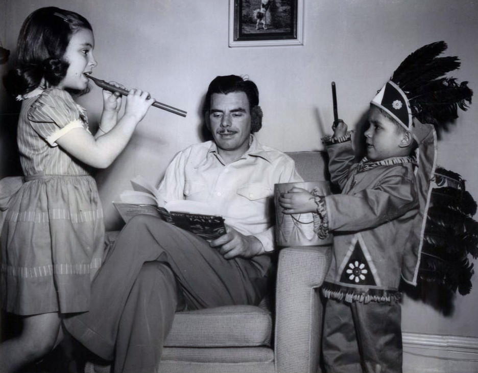 Publicity photo of actor Nelson Olmsted and his two children in 1947.